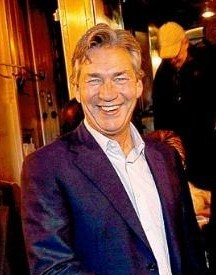 Gary Doer